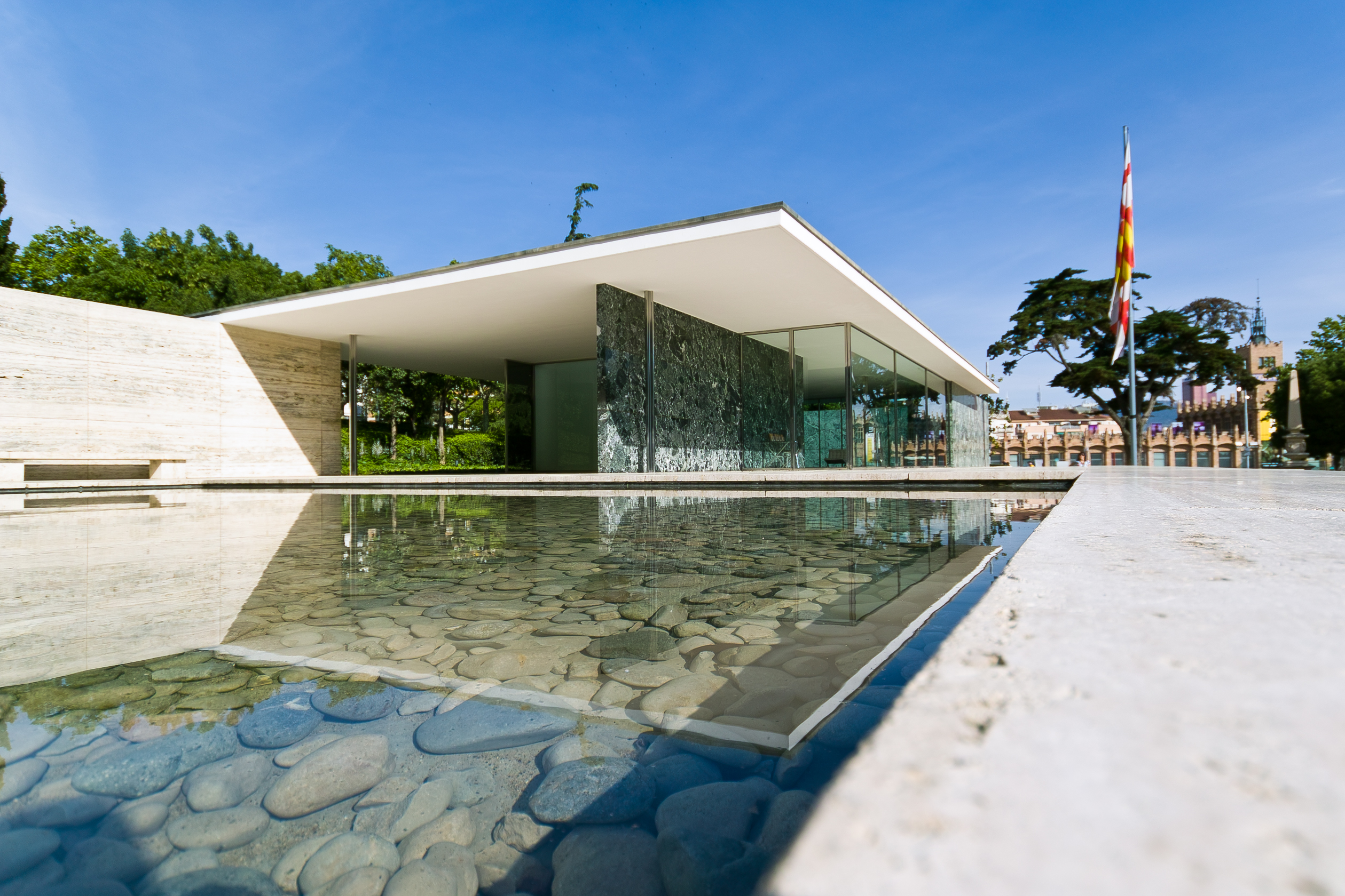 Barcelona